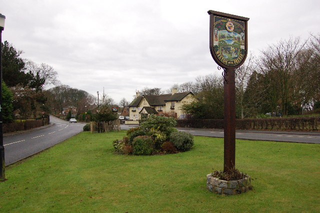 Weeton & The Eagle & Child. Weeton in known more for the old RAF wartime camp, nowadays an Army camp. The old shop which is now shut used to be renowned for its parched peas.